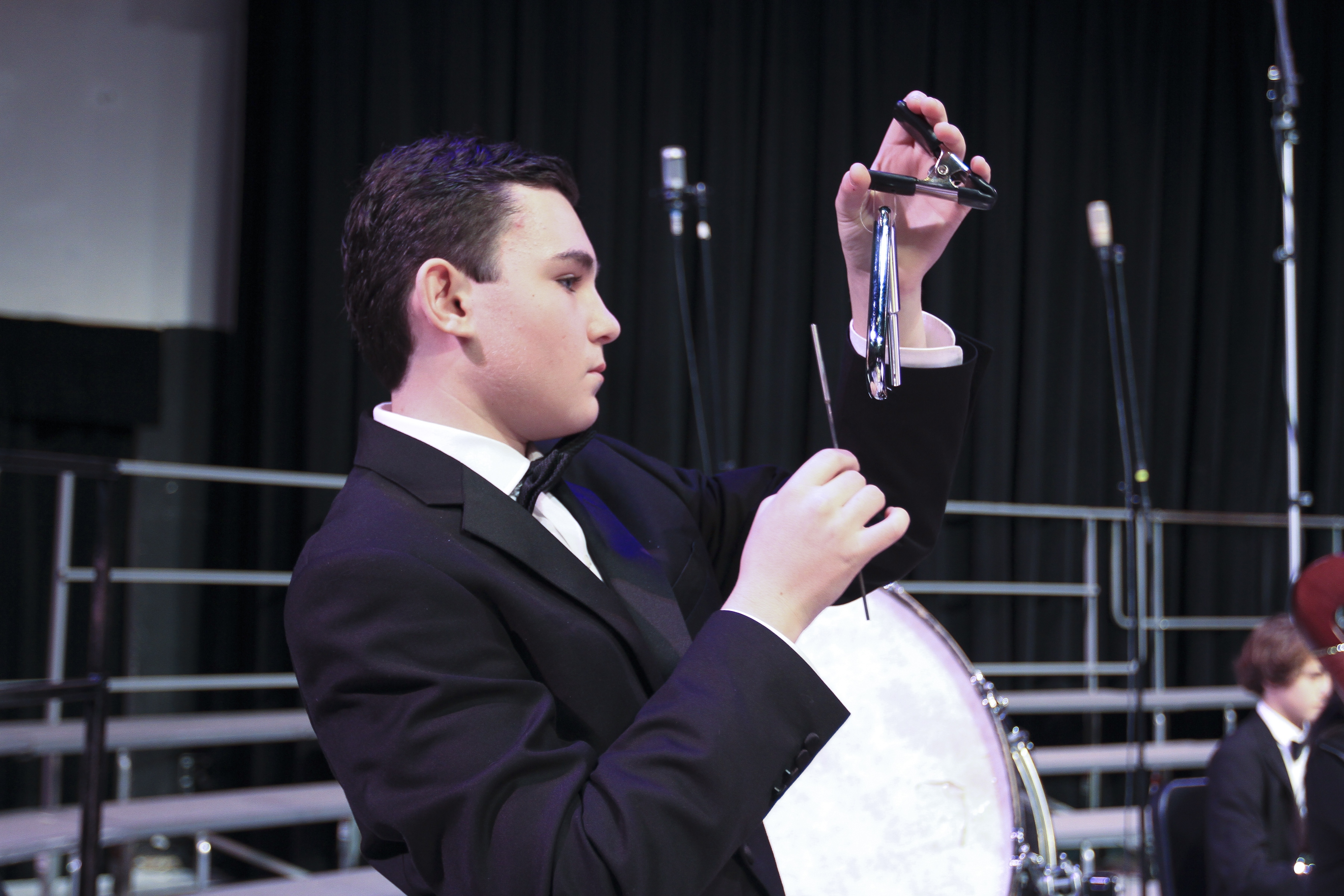 Philadelphia Youth Orchestra